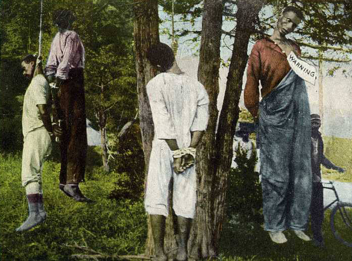 " Taken from death, lynching at Russellville, Logan County, Kentucky "